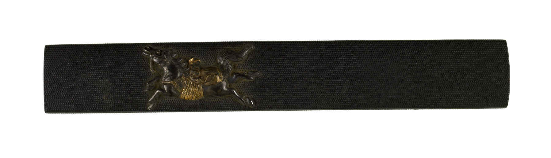 Images pairing horses and monkeys are common because monkeys were believed to keep horses calm within a stable. Monkeys are often shown as grooms for horses. On this kozuka, a horse is shown galloping across the front. On the reverse, a framed inset depicts a monkey tied to a poll. The artist's signature is within this inset, which contributes to its resemblance to a painting. The background of the kozuka is worked in a fish egg ("nanako") pattern.